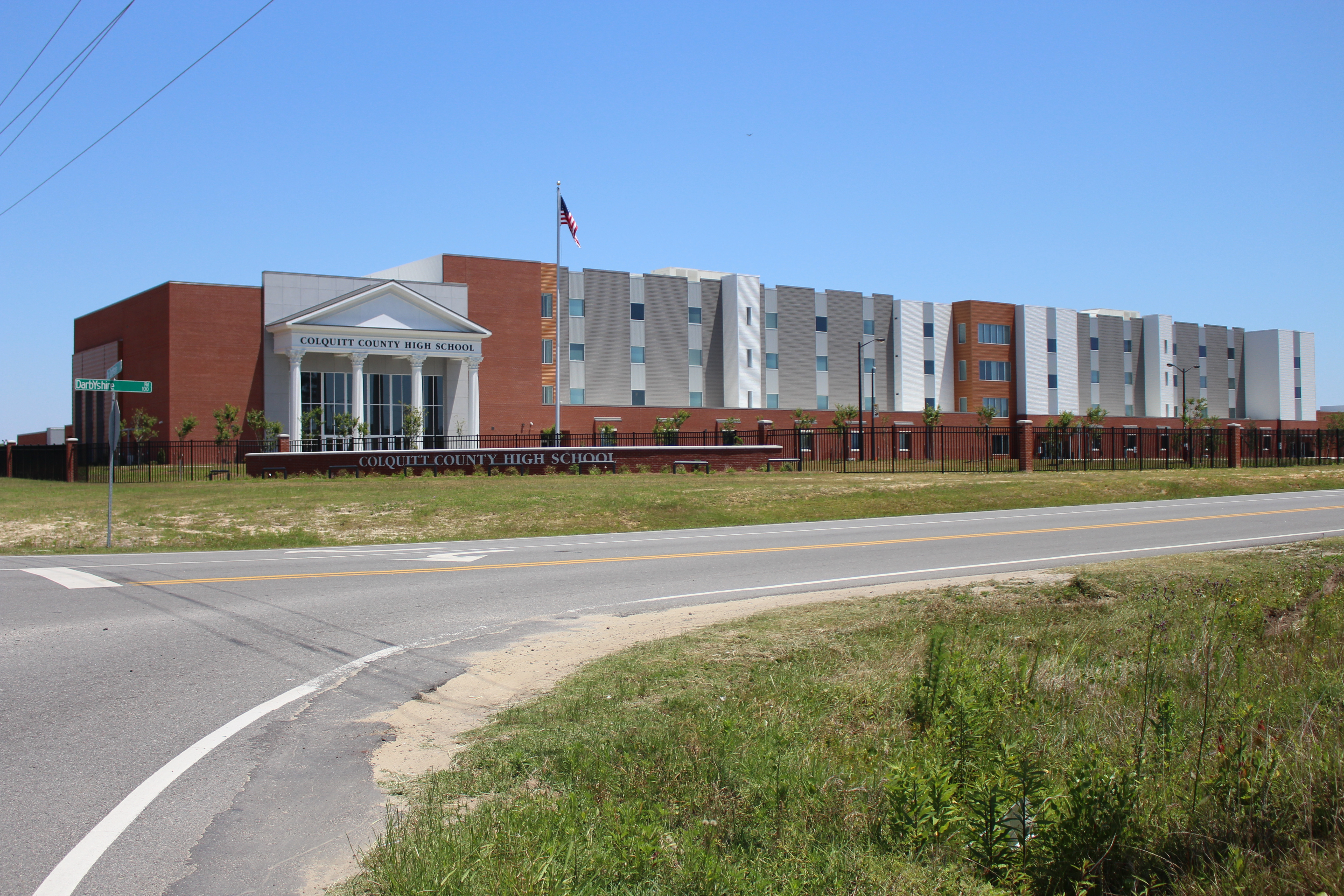 Colquitt County High School, 105 Darbyshire Rd, Norman Park, Colquitt County, Geogia. The school has a Norman Park address but is located outside of the city limits.